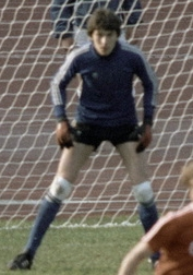 Rinat Dasayev during the XXII Olympic Games in Moscow